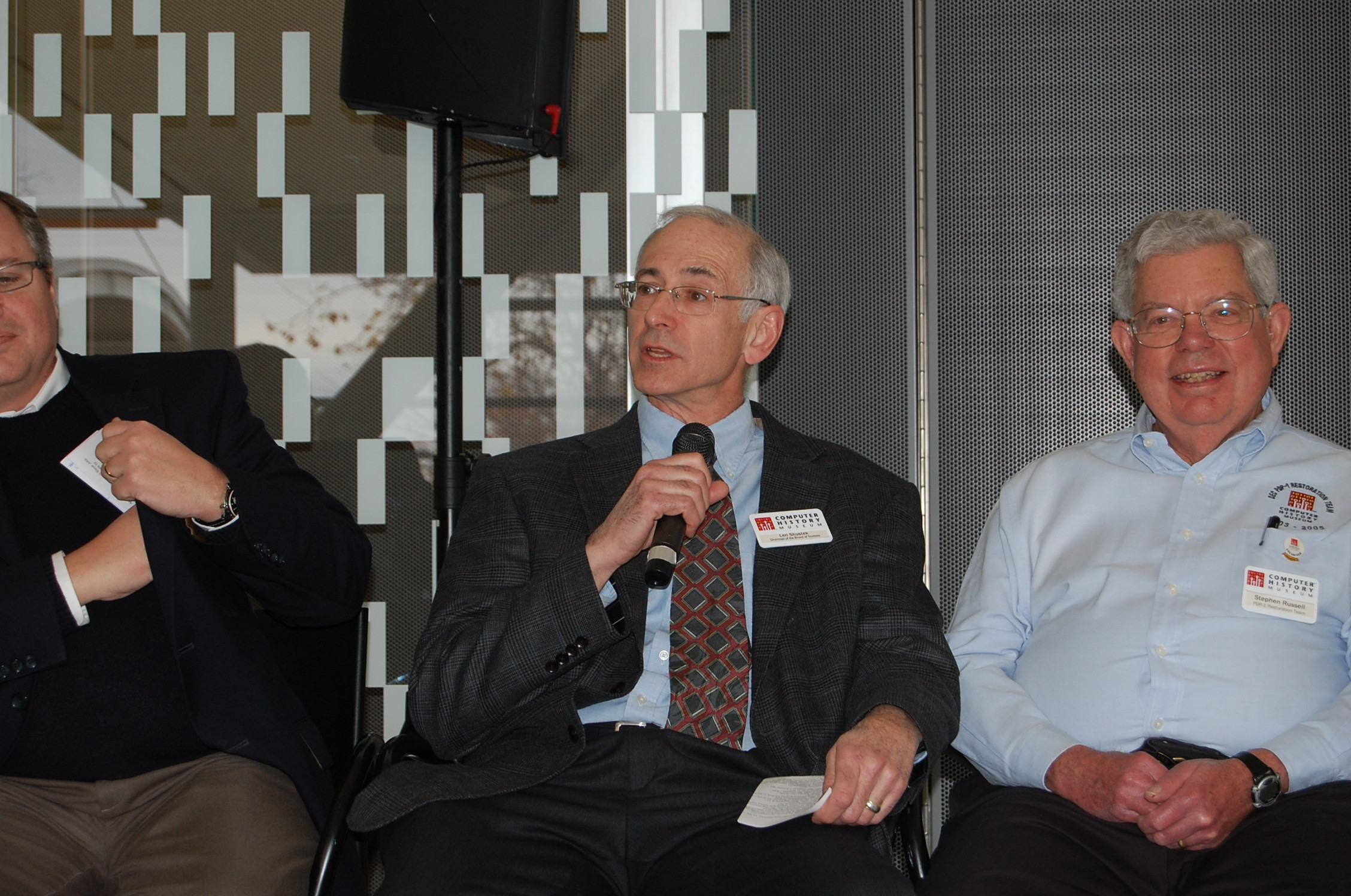 Len Shustek (center) with Stephen Russell (right) at the opening event of Computer History Museum's Revolution exhibition